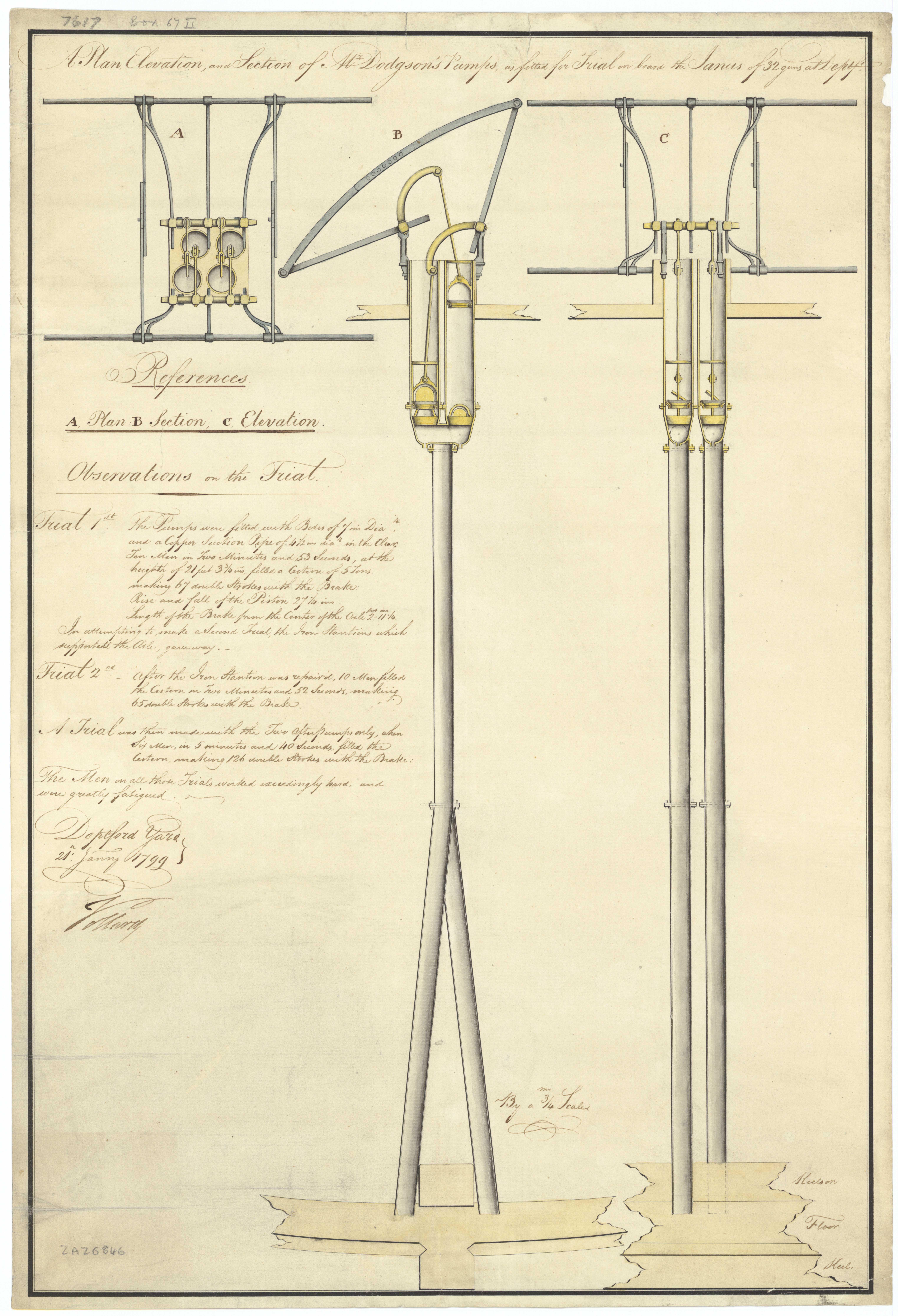 Dodgson's Double Headed Pump as fitted to Janus (1796) Scale: 1:16. Plan showing a plan view, and side and front elevations of Dodgson's Double Headed pump, as fitted to Janus (1796), a captured Dutch Frigate, fitted as a 32 gun, Fifth Rate Frigate, now a receiving ship at Deptford Dockyard. The plan is also annotated with the results from three trials. Signed by Thomas Pollard [Master Shipwright, Deptford Dockyard, 1795-1799]. This plan has two related documents: ZAZ6846.1: Titled: "Certificate respecting Dodgson's Double-Headed Pumps" ZAZ6846.2: Plan showing the double-headed pump with details as invented by George Dodgson - see catalogue entry. pump, 2 attached documents ZAZ6846.1 & ZAZ6846.2, view via toggle by WHOLE/PART field